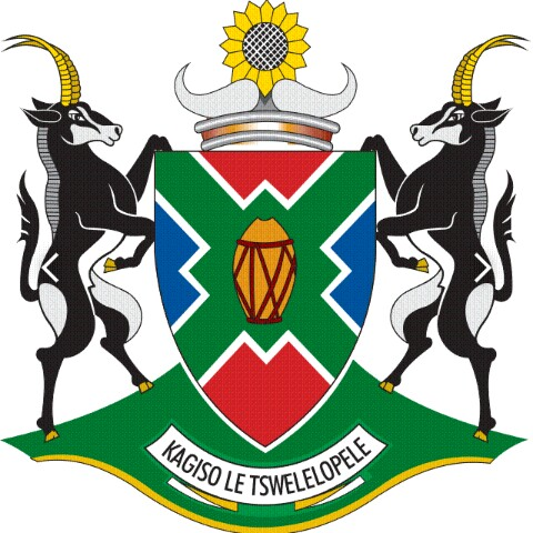 Ibheji lesifundazwe seNyakatho Ntshonalanga